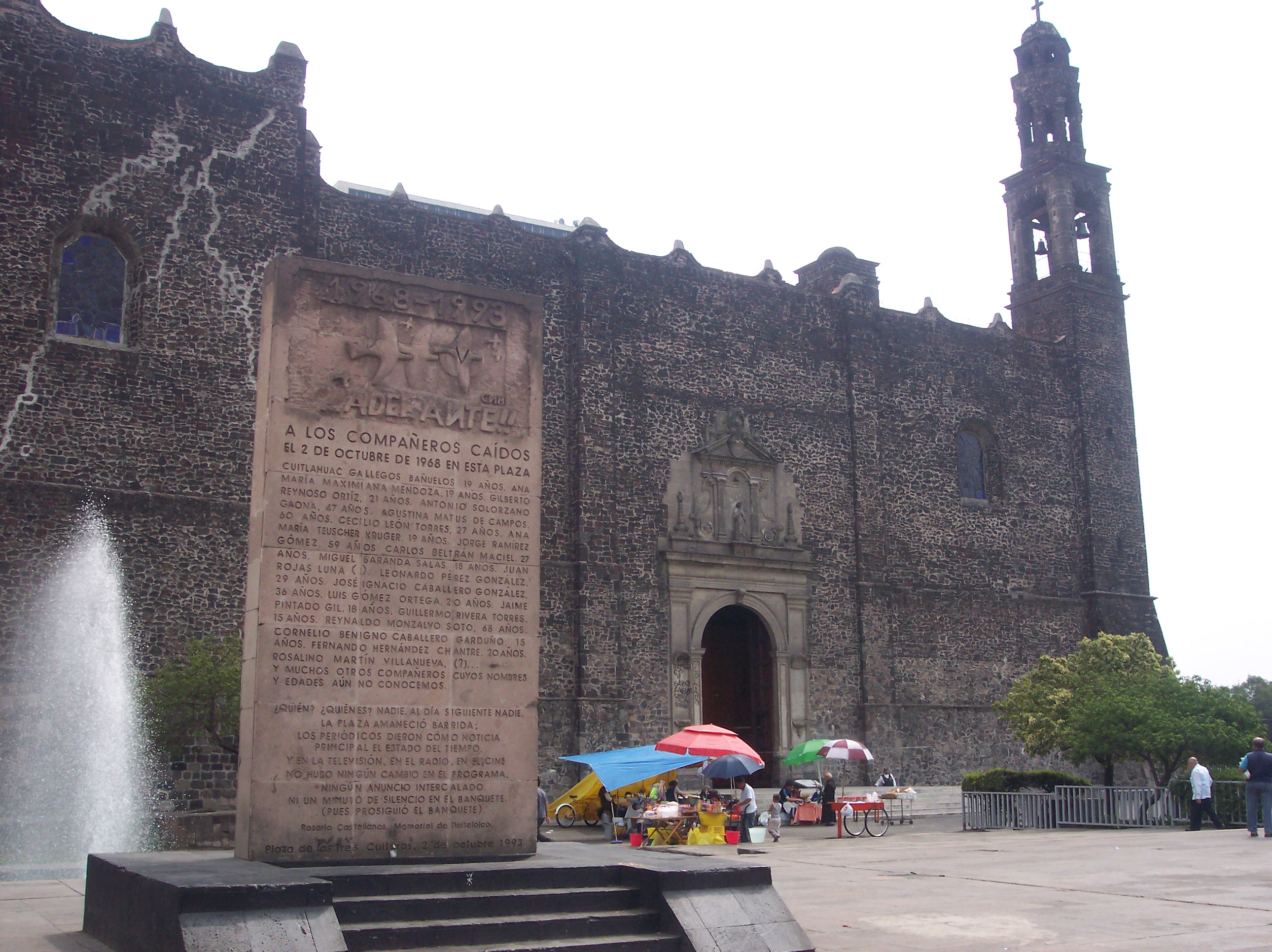 Photograph from The Three Cultures Plaza in Tlatelolco.